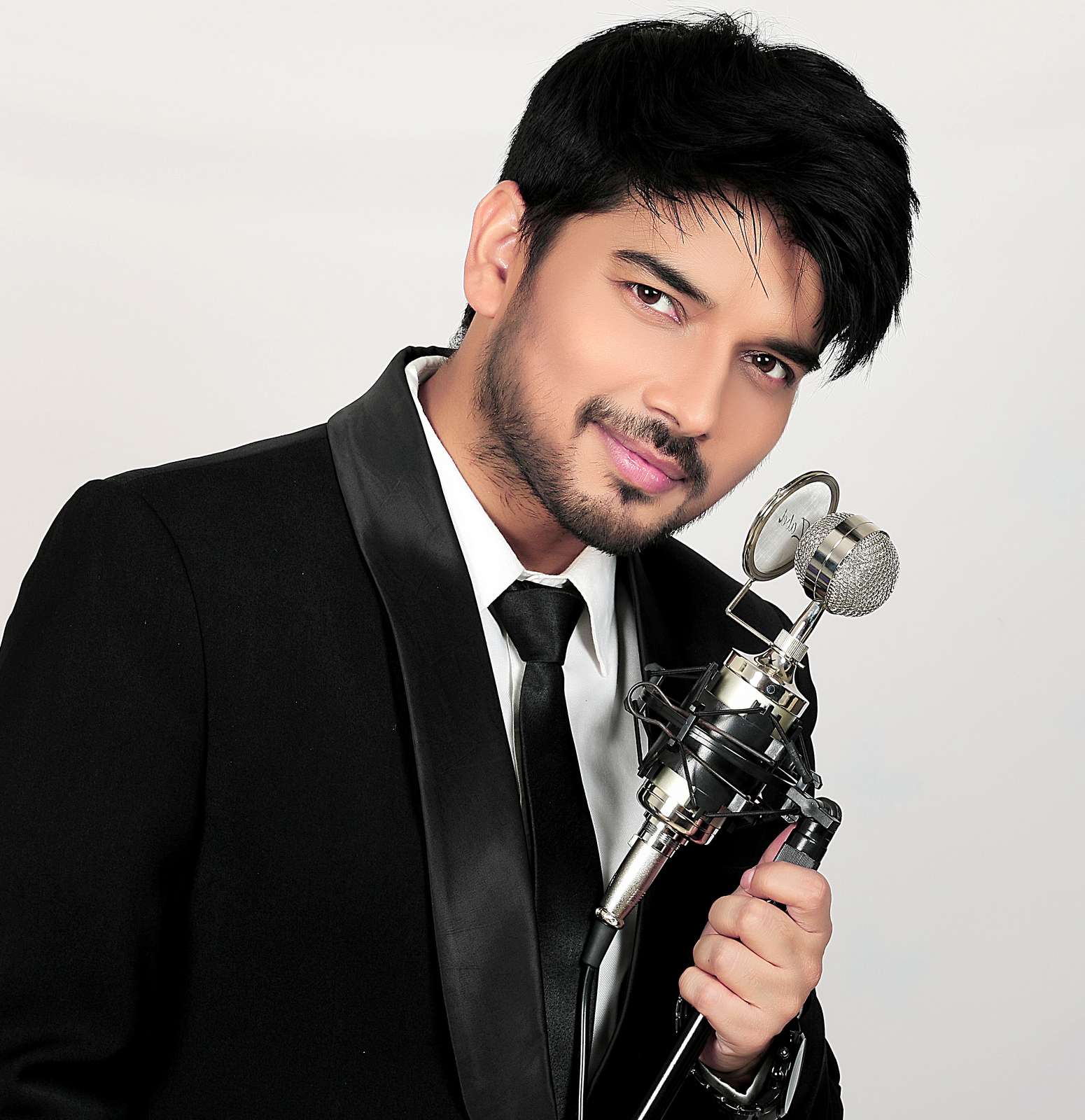 Mohit Pathak latest pictures 2019